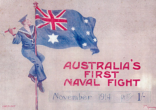 Postcard commemorating the naval victory of the HMAS Sydney over the German light cruiser Emden, 1914.